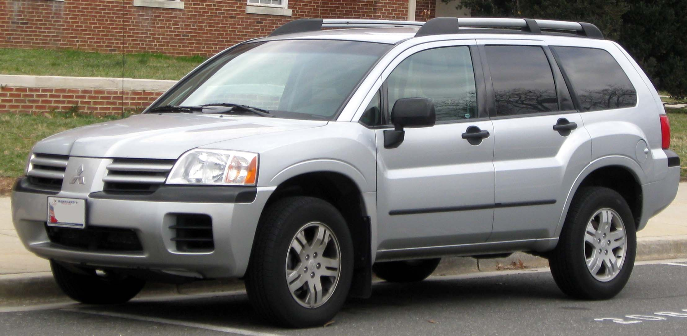 2004-2005 Mitsubishi Endeavor photographed in College Park, Maryland, USA.